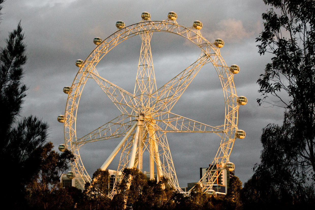 The Southern Star Observation Wheel the evening before open day.